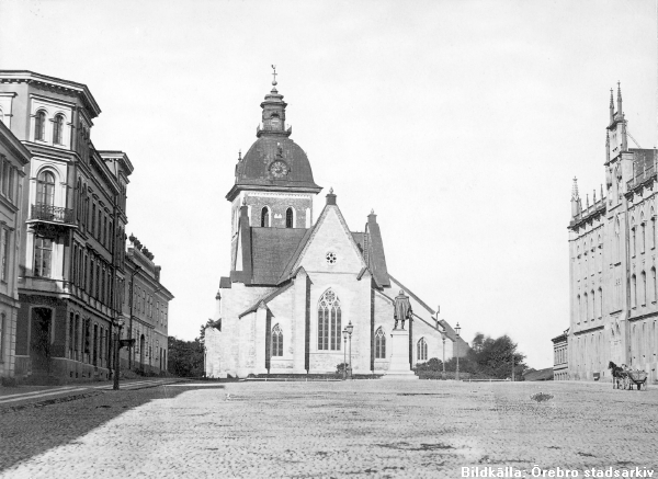 The S:t Nicolai Church in Örebro, Sweden, 1870